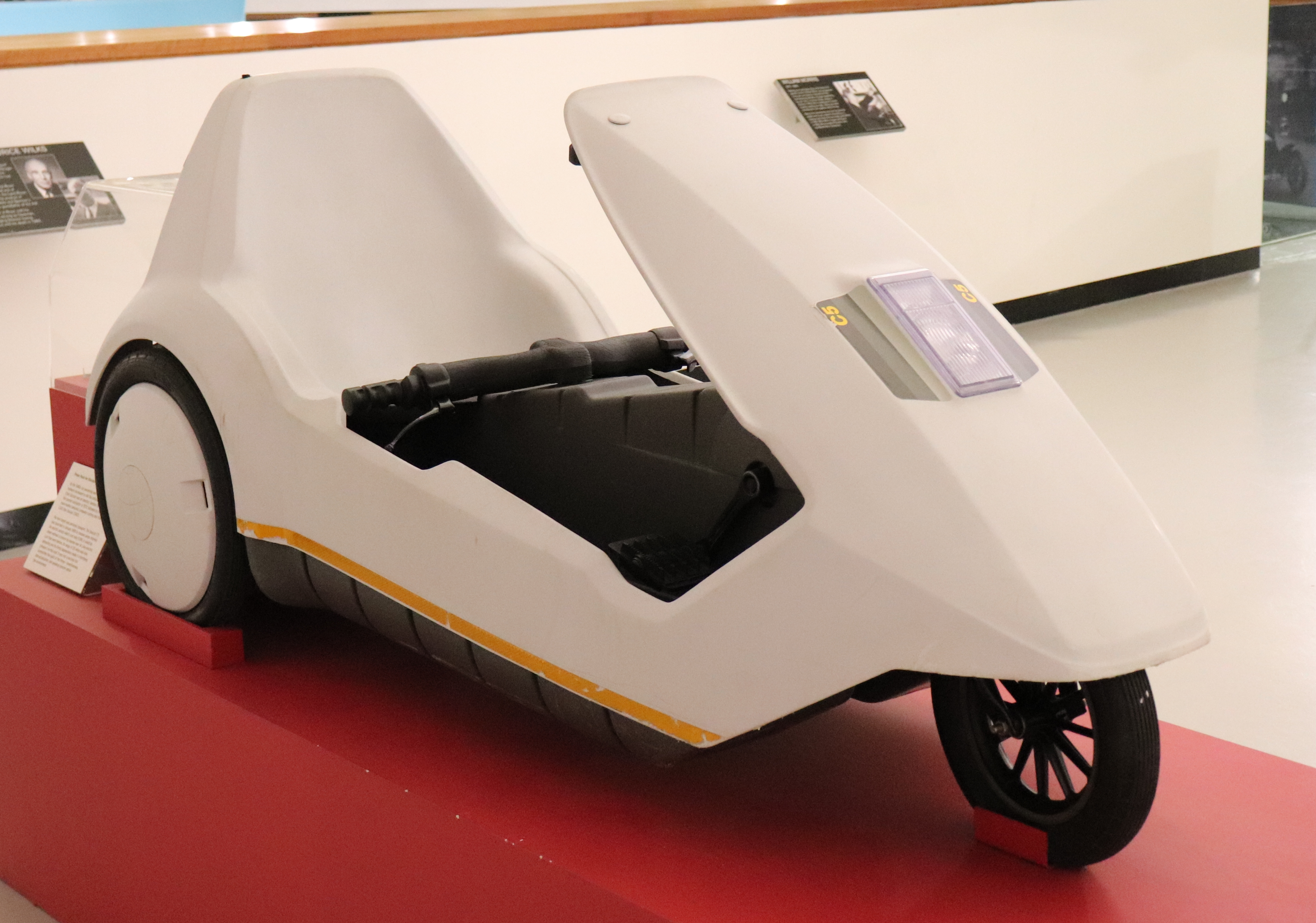 1985 Sinclair C5 Taken at the British Motor Museum, Gaydon